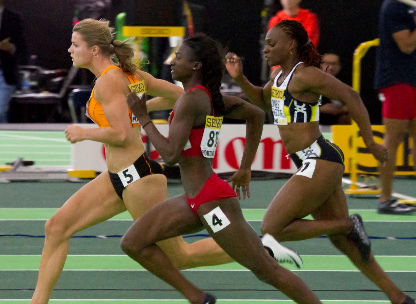 332 halve finale 60m schippers bowie